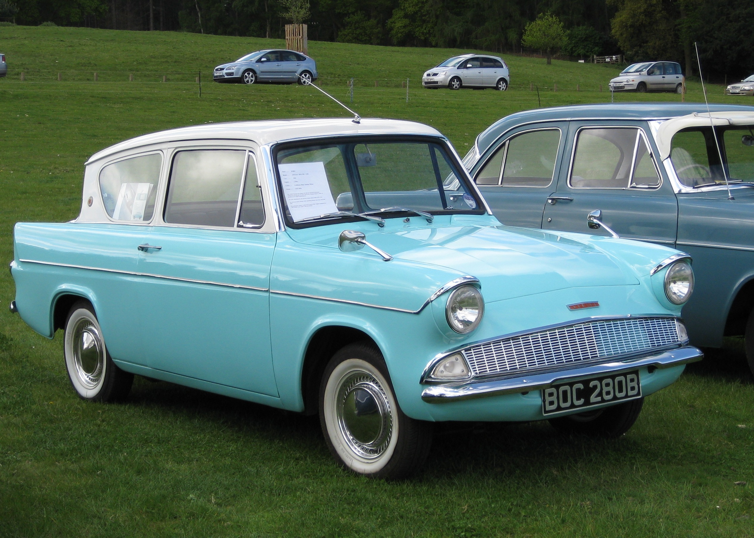 Ford Anglia near Biggleswade